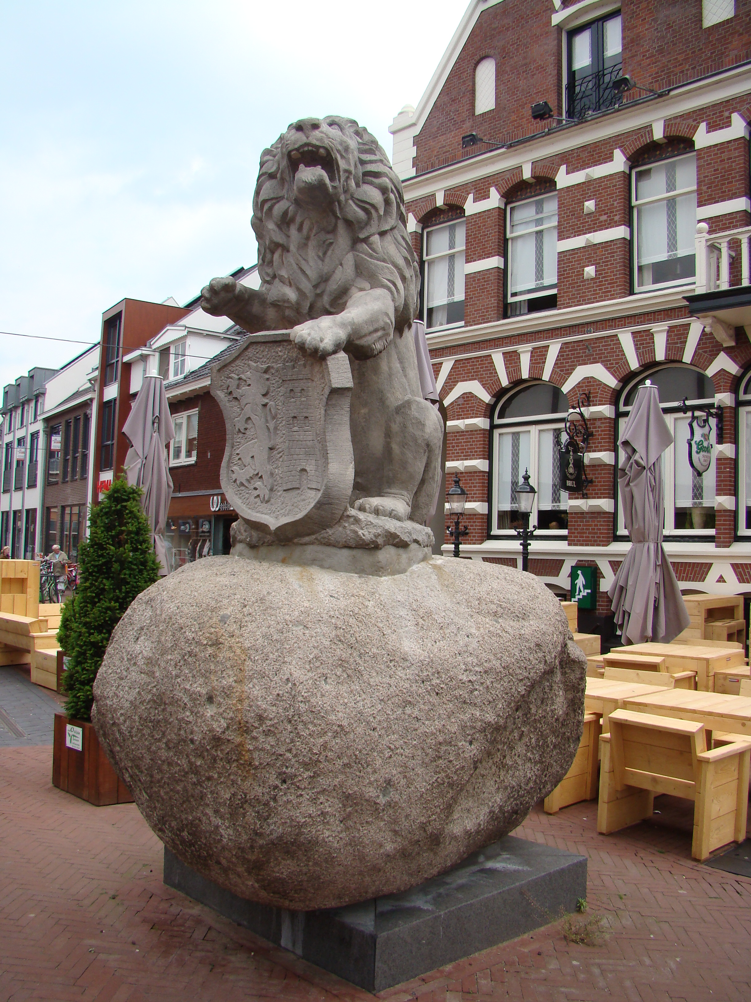 Lichtenvoorde, Netherlands